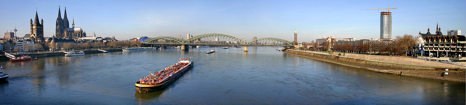 Panorama Cologne, Germany. View from Deutzer Brücke (Deutz bridge)